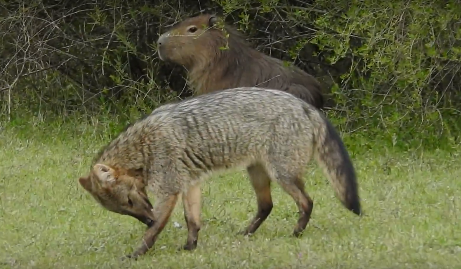 Maikong in Palmar National Park, Argentina